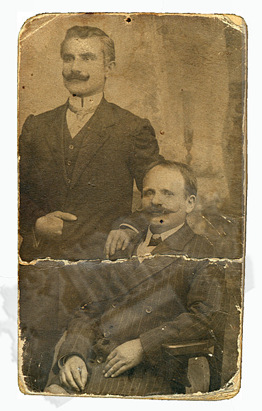 Velko Petsanov and Gavril Nikolov in Bitolya, 1912